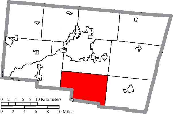 Map of the municipal and township boundaries of Clark County, Ohio, United States, as of the 2000 census, with the location of Green Township highlighted. Township borders are shown only in unincorporated areas in order to differentiate incorporated and unincorporated areas more clearly.